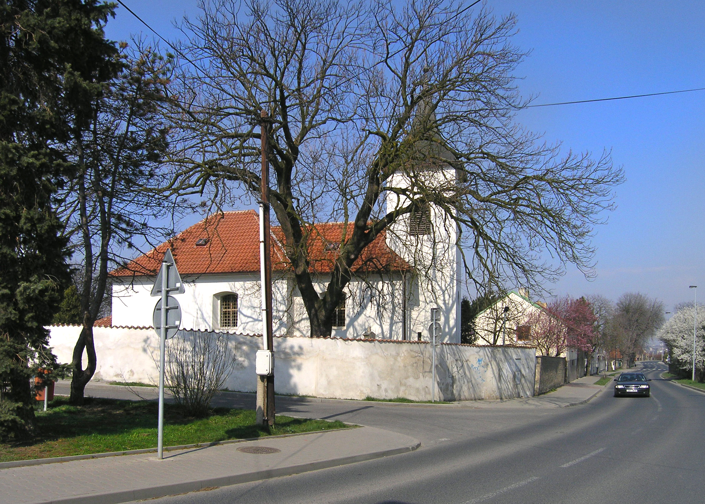 Svatý Prokop church at Hrnčíře, Prague